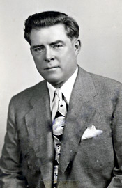 Ray J. Madden, US Representative from Indiana